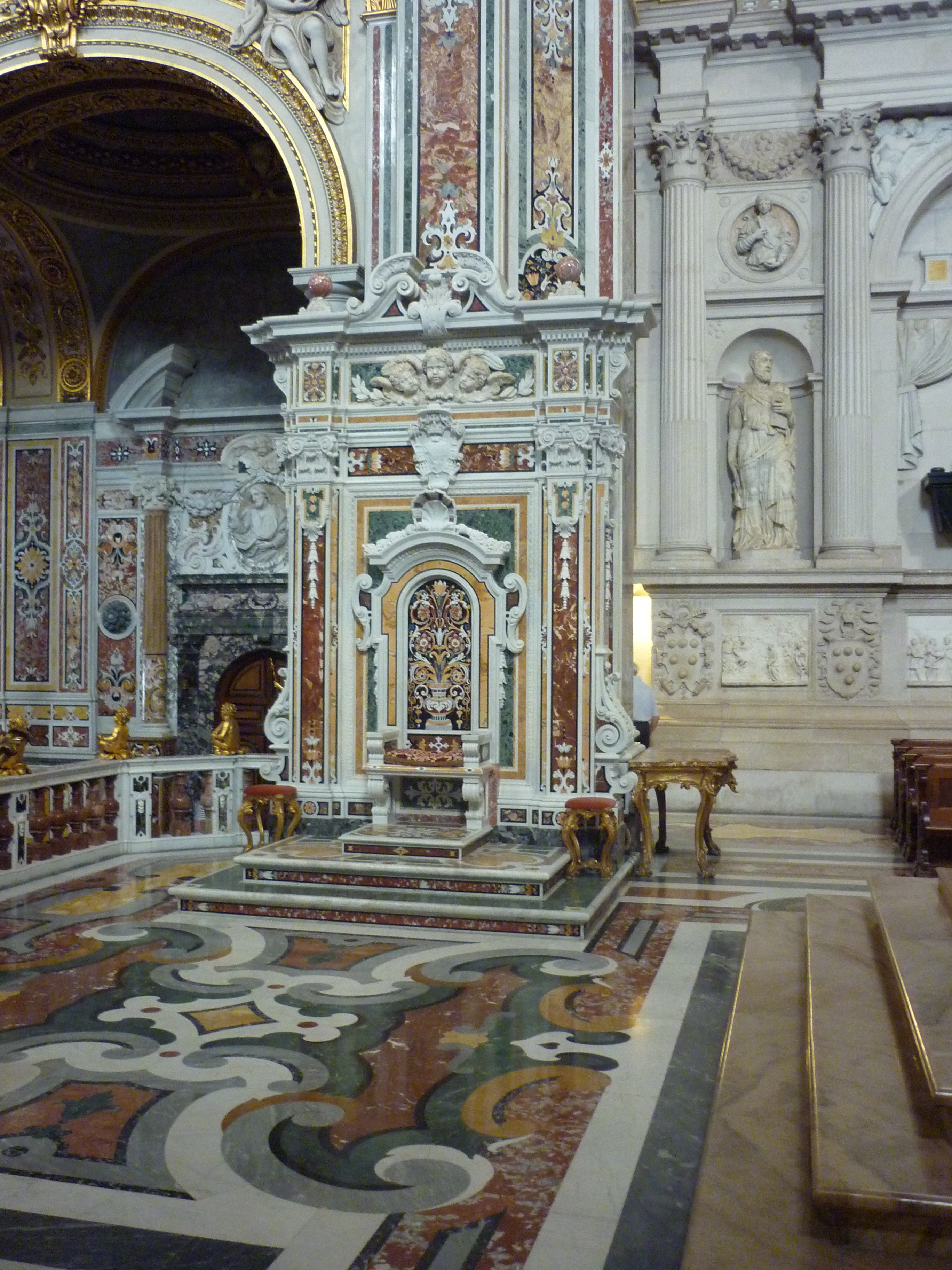 Monte Cassino Abbey